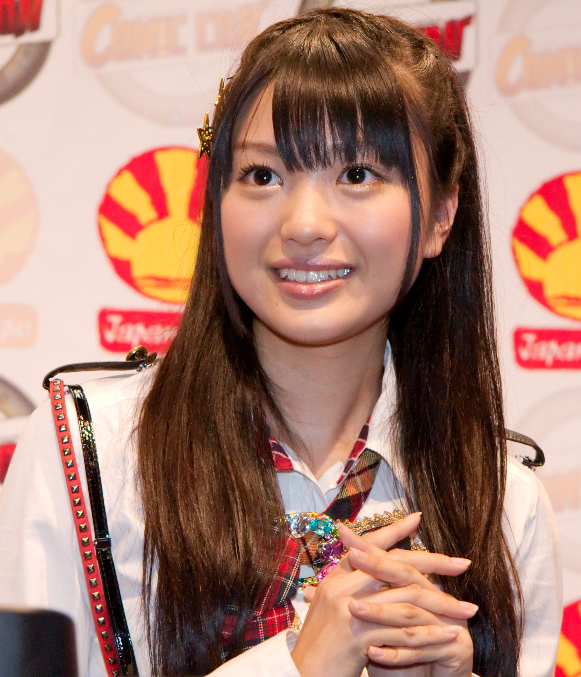 Rie Kitahara of AKB48 during lecture at Japan Expo 2009 (Paris, France).